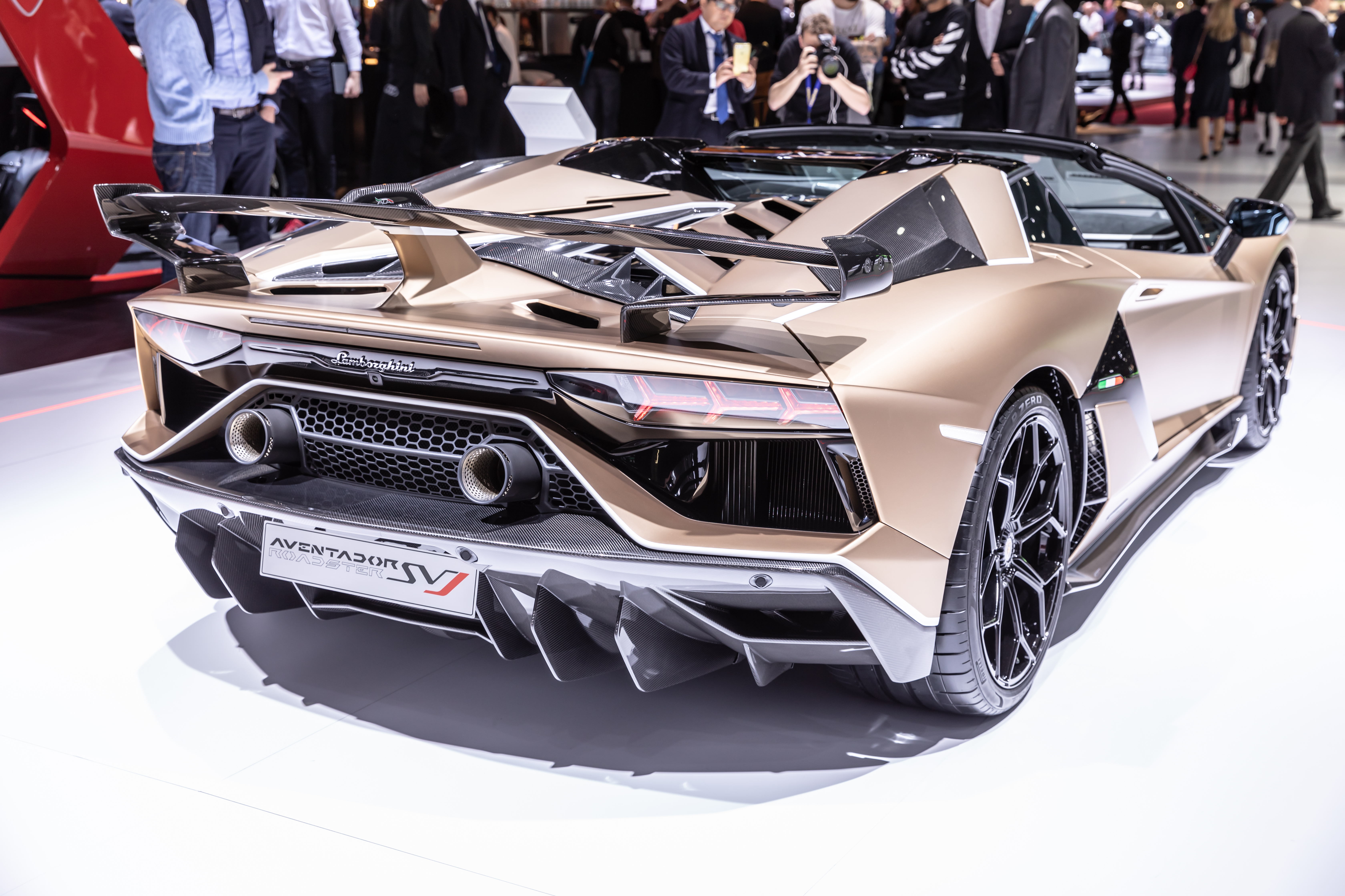 Geneva International Motor Show 2019, Le Grand-Saconnex